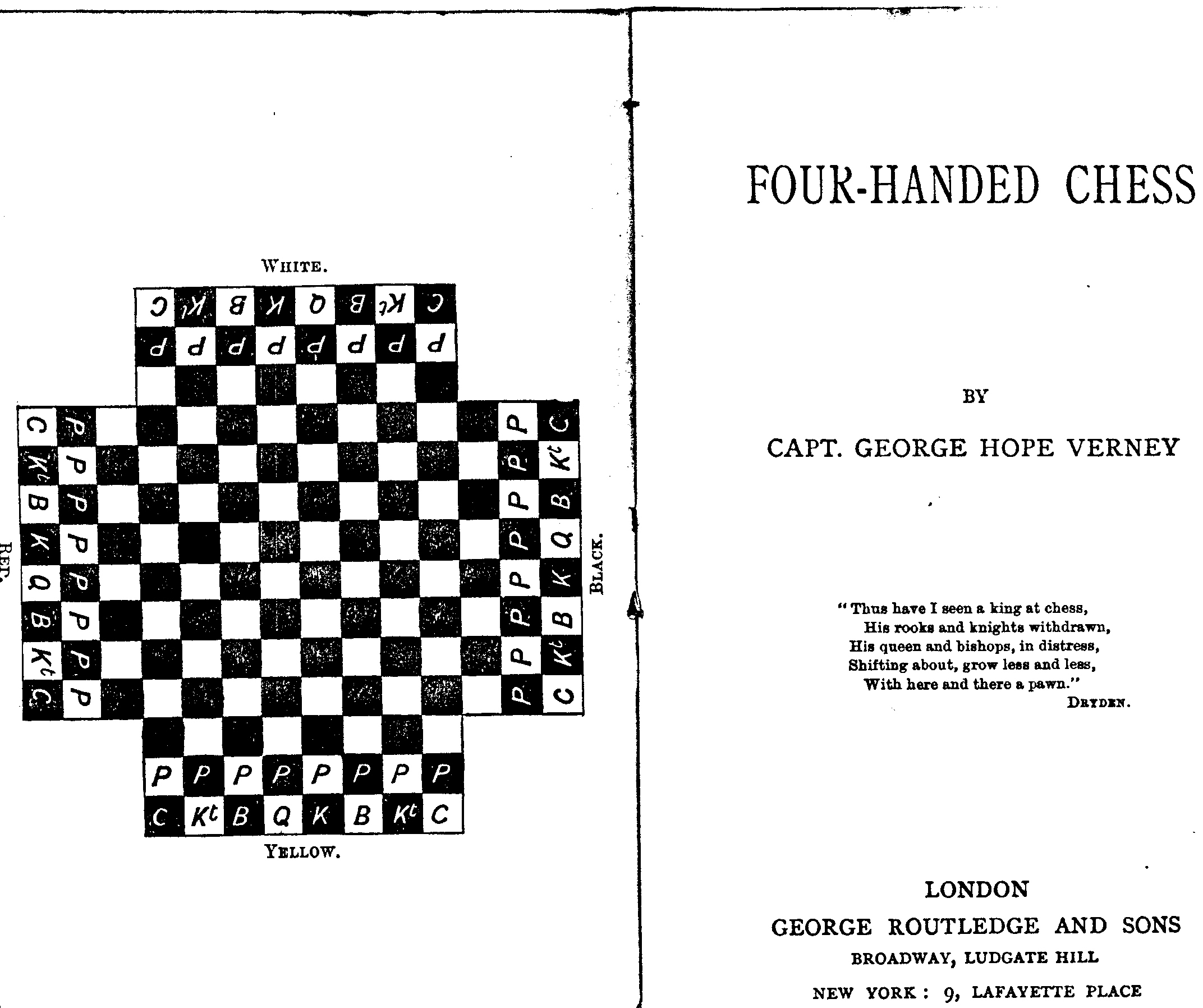 Four-Handed Chess by George Hope Verney scanned copy, first page